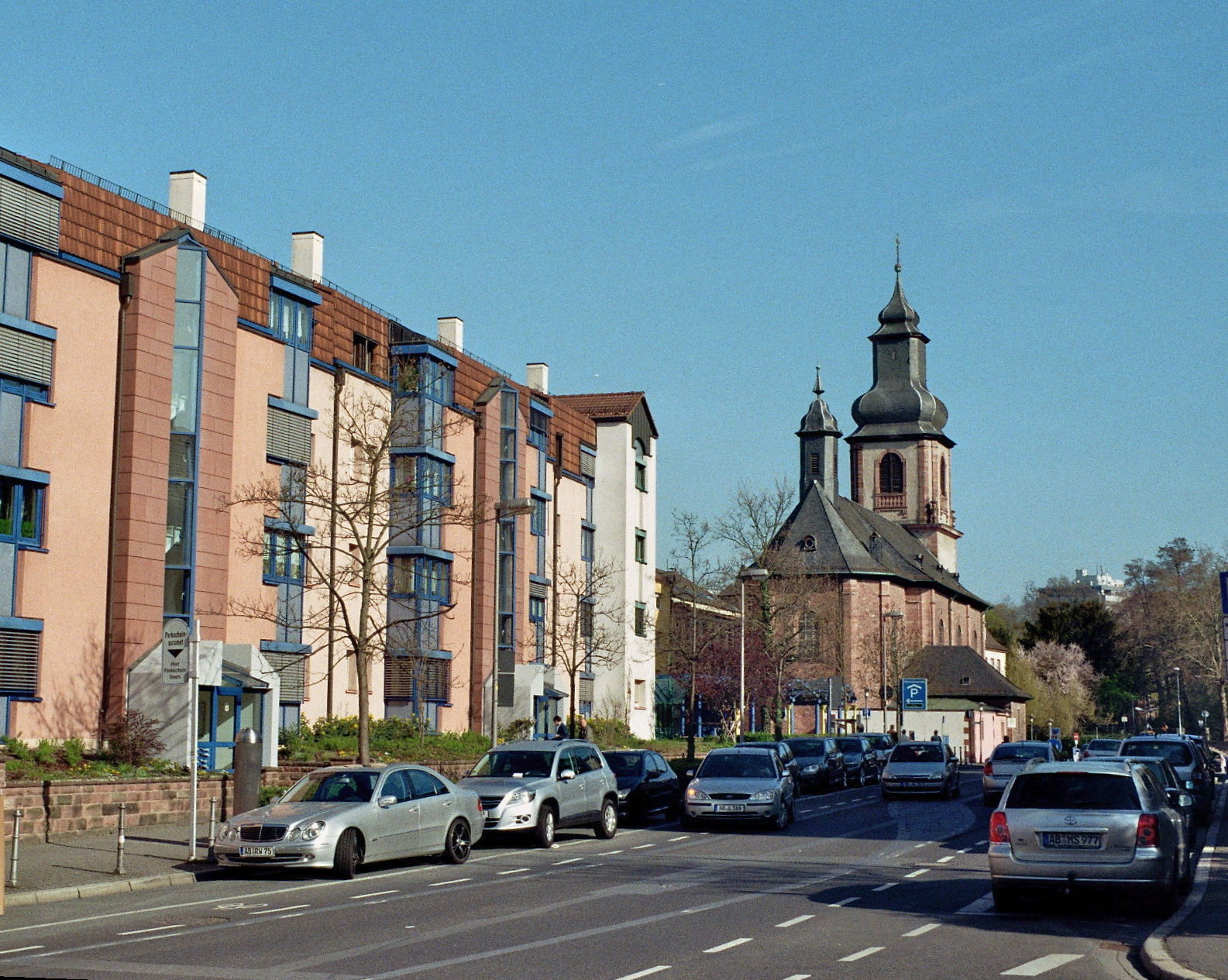 Sandkirche Church in Alexandrastrasse in Aschaffenburg, Bavaria/Germany Sandkirche in der Alexandrastraße in Aschaffenburg, Bayern